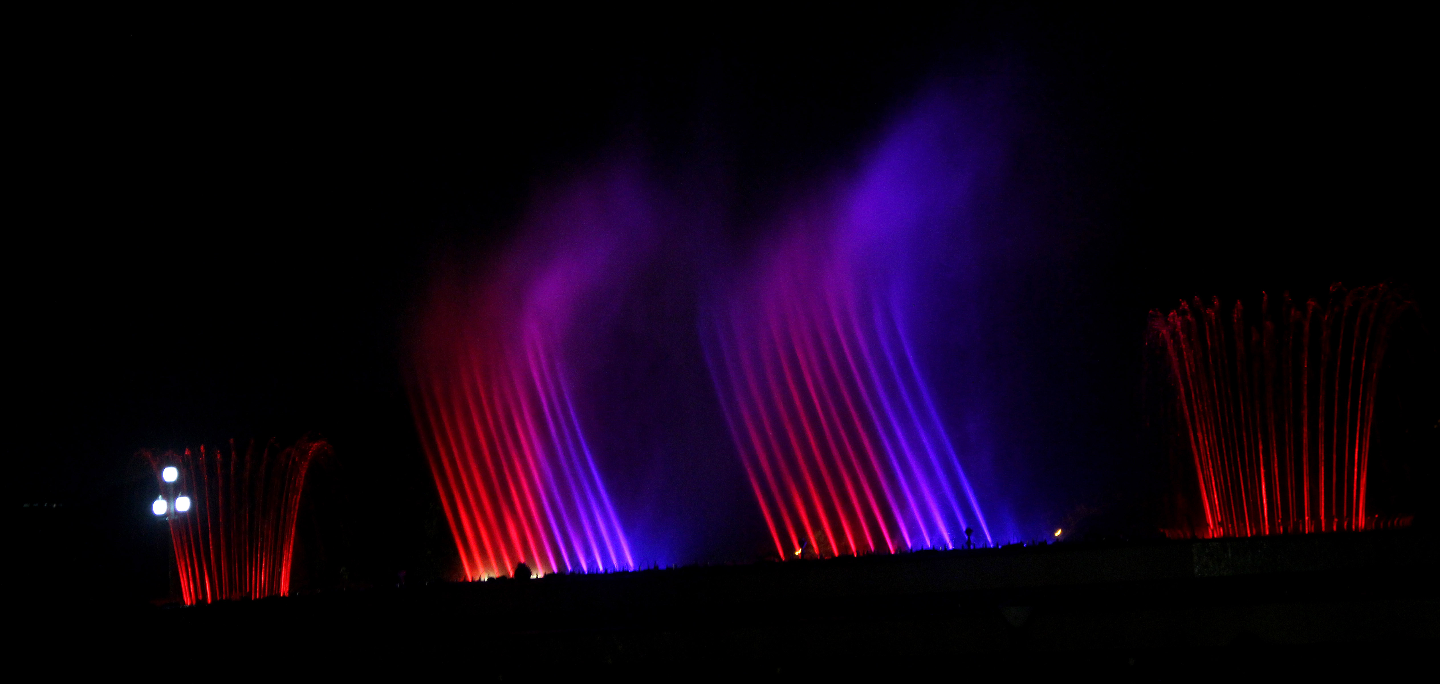 Fountain of Joy - CESC